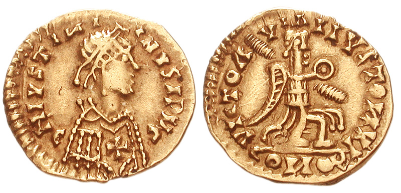 Visigoths, Spain. Uncertain king. AD 507-580. AV Tremissis (15mm, 1.42 g, 6h). Narbonne or Barcelonas mint. Struck in the name of Justinianus I, circa AD 527-565. C N IVSTIИIINVS IPVC, pearl-diademed, draped, and cuirassed bust right; cross on drapery VICTOΛ VIΛ IIVSTOИVI, Victory advancing right, holding palm and wreath; COИOB. Tomasini, Group JAN 1, 233 (this coin); MEC 1 -. Good VF, toned.